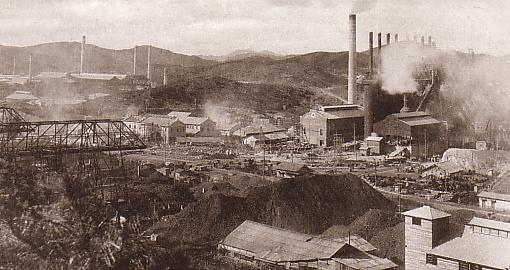 Kenjiho(Kyomipo, present-day Songrim) iron works of Mitsubishi